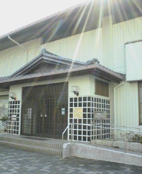 This is a public library.It's also Isobe Folk Museum.